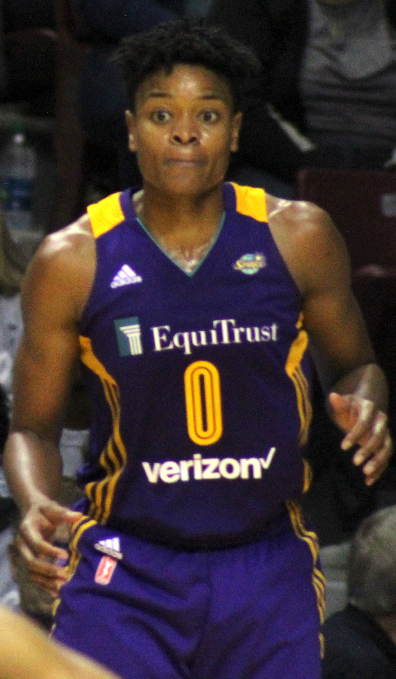 Alana Beard of the Los Angeles Sparks during the 2017 WNBA Finals